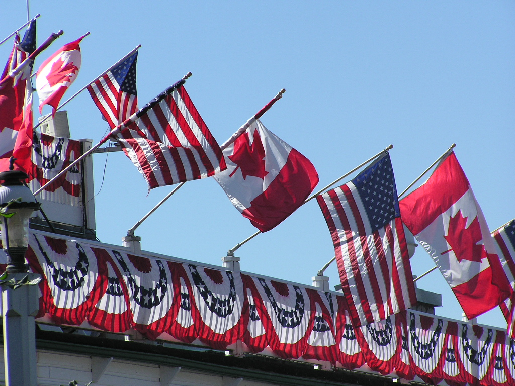 4th of July decorations at Roche Harbor, 2004, include flags of the United States and Canada, and red, white and blue bunting.